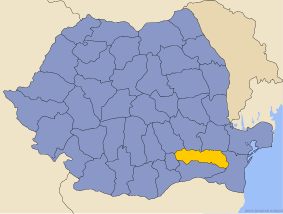 Location of Ialomița County in Romania.